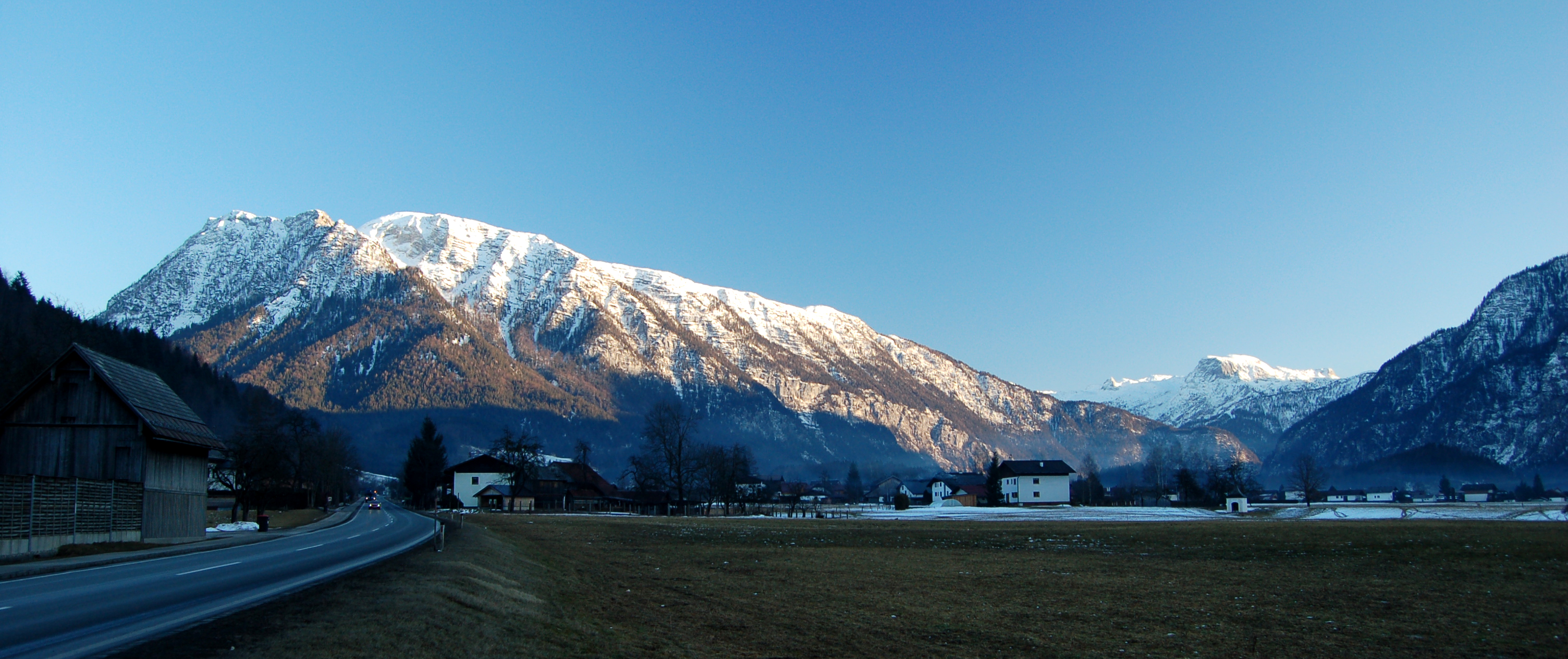 The mountain Hoher Sarstein (1975m) as seen from Bad Goisern, Upper Austria. At the left is the Pötschenhöhe, a mountain pass, then the Schwarzkogel (1800m), Hoher Sarstein and in the right background Hoher Krippenstein (2105m) of Dachstein group.